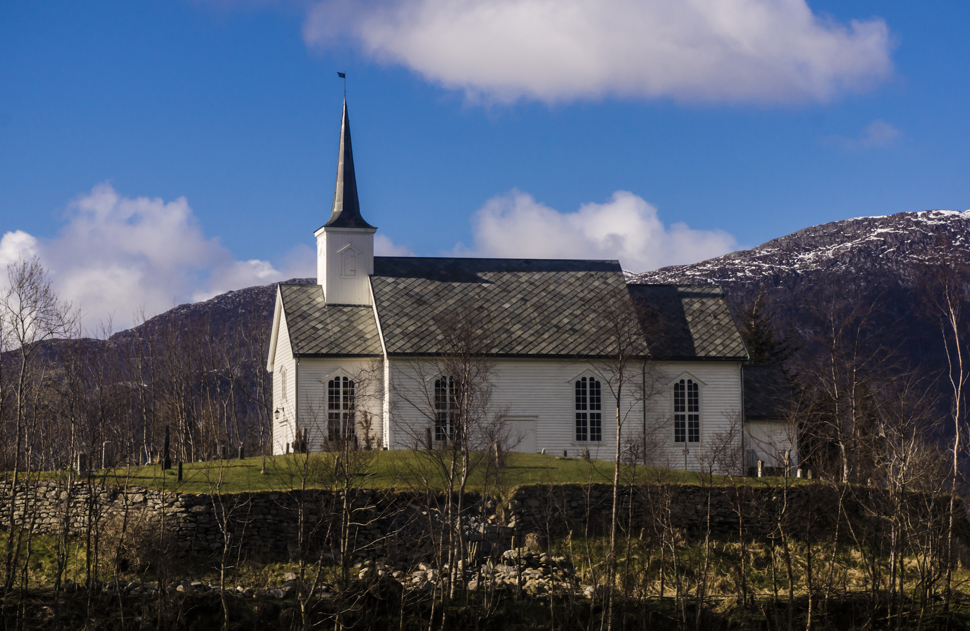 Rovde church from 1872 in Vanylven. Architect Lars Tornæs.